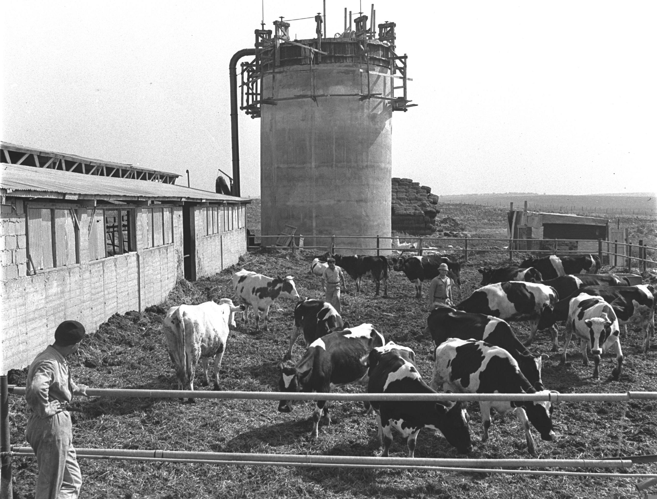 KIBBUTZ MEFALSIM. COWSHED AND SILO AT KIBBUTZ MEFALSIM.